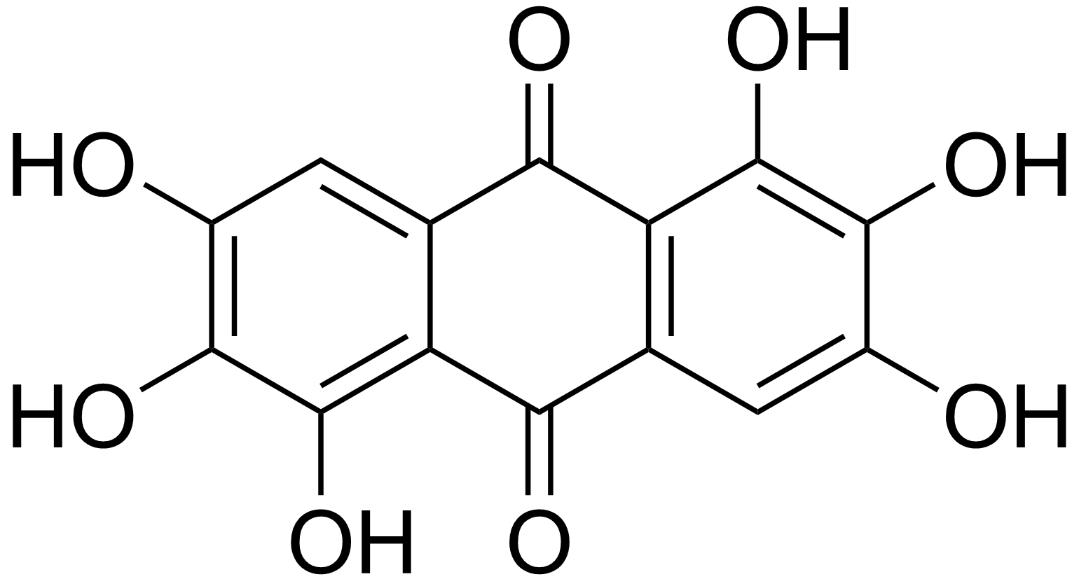 Chemical structure of rufigallol